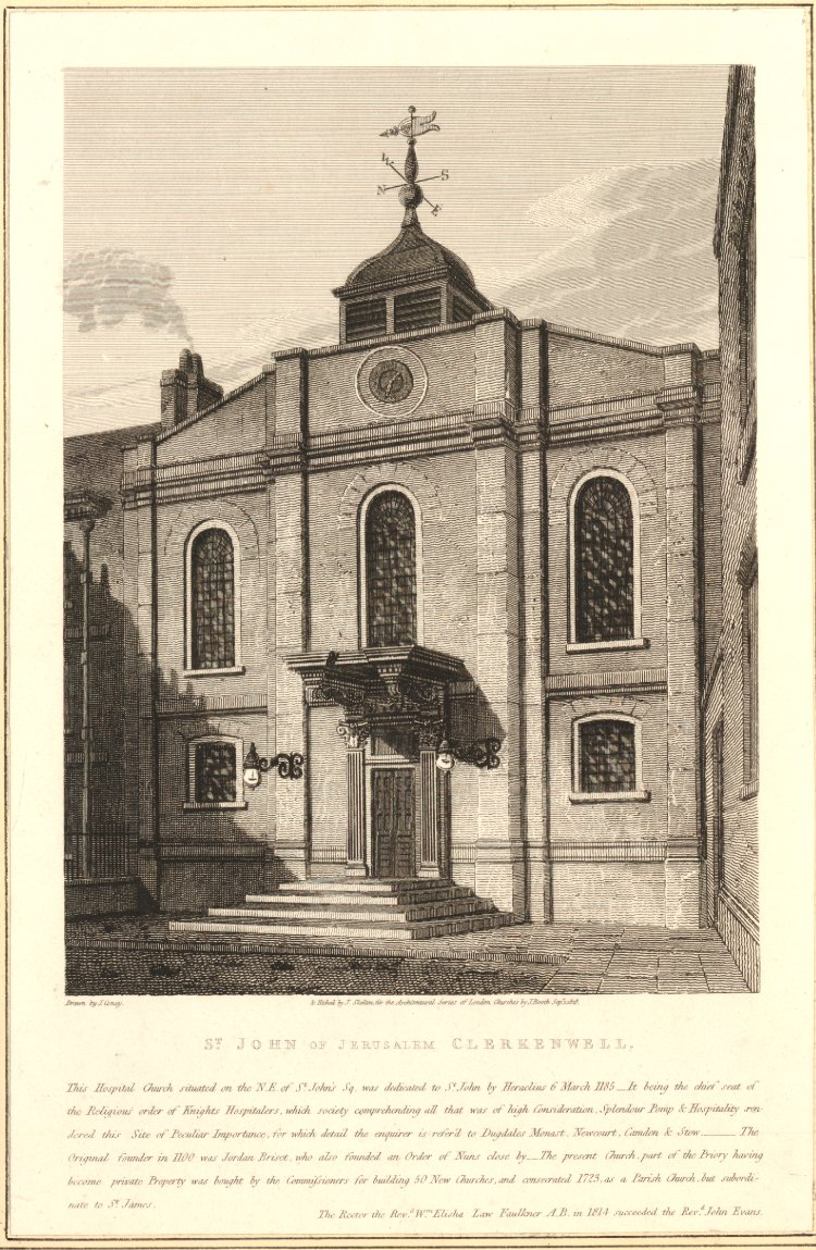 "Architectura Ecclesiastica Londini / St John of Jerusalem Clerkenwell," etching and engraving, by the British publisher and printmaker Joseph Skelton. Dated 1818. View of St John of Jerusalem, Clerkenwell, London. 280 mm x 183 mm. Lettering beneath the image says: "This Hospital Church situated on the N E of St John's Sq was dedicated to St John by Heraclius 6 March 1185. It being the chief seat of the Religious order of Knights Hospitalers, which society comprehending all that was of high Consideration, splendour pomp & hospitality rendered this site of peculiar importance, for which details the enquirer is refer'd to Dugdales Monast. Newcourt, Camden & Stow. The Original founder in 1100 was Jordan Briset, who also founded an Order of Nuns close by. The present Church, part of the Priory having become private Property was bought by the Commissioners for building 50 New Churches, and consecrated 1723, as a Parish Church, but subordinate to St James. The Rector the Revd Wm Elisha Law Faulkner A.B. in 1814 succeeded the Revd John Evans." Courtesy of the British Museum, London.